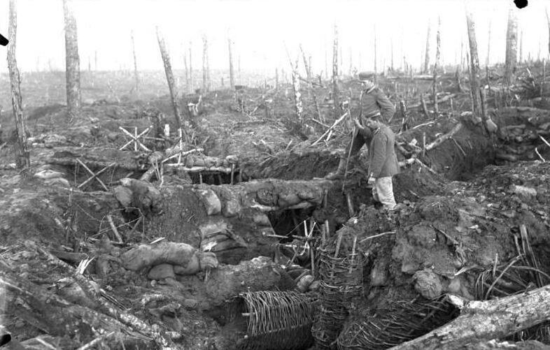 I. Weltkrieg 1914-1918 Argonnen, Cimetieres Werk; Oktober 1915 Information added by Wikimedia users.